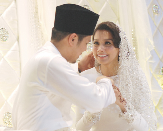 Scha Alyahya & Awal Ashaari tied the knot